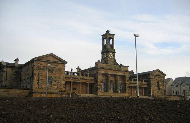 Bathgate Academy. The school left the site in 1967, and the striking building has slowly decayed since. Now it is the centrepiece of new housing development.